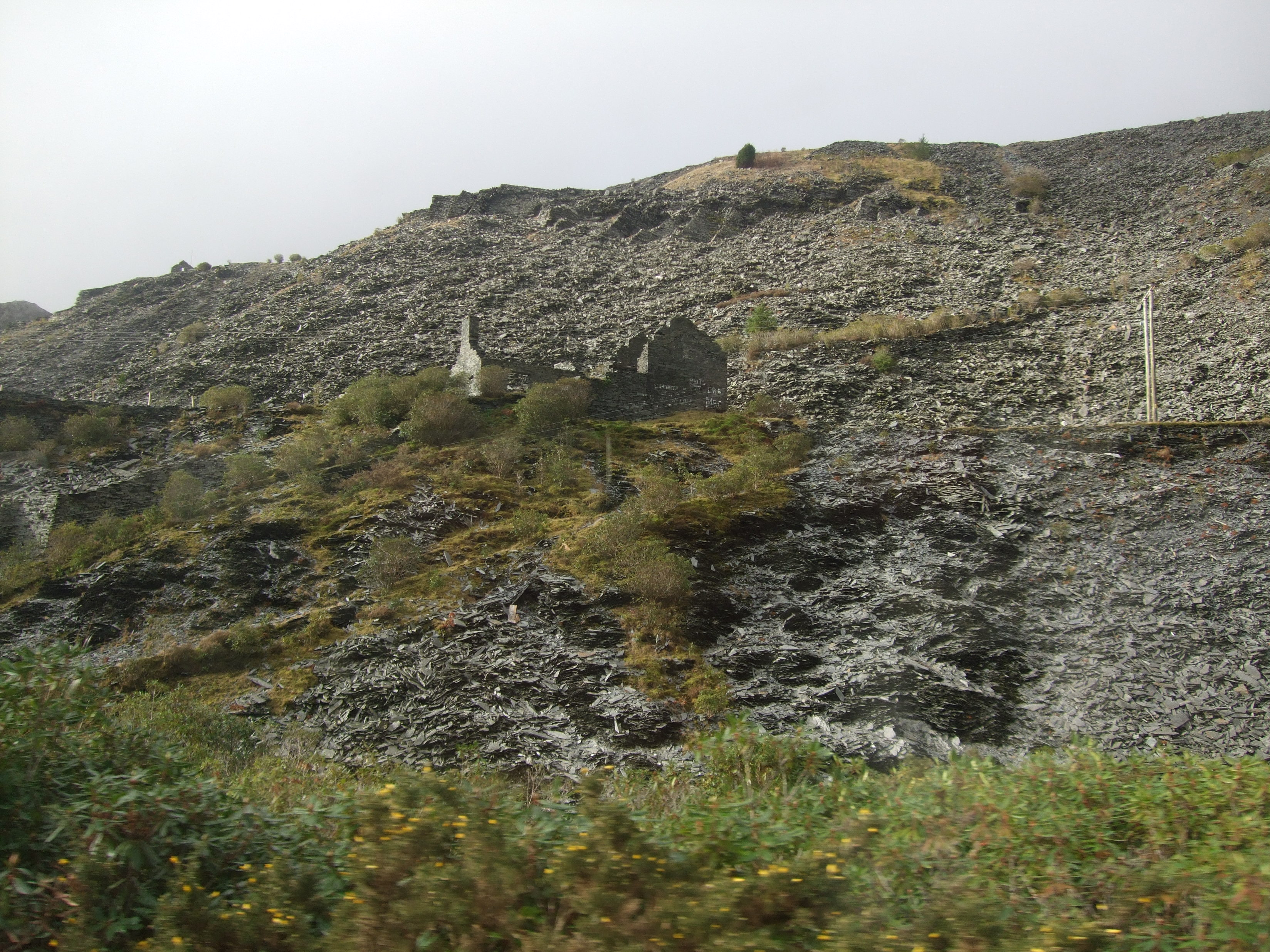 A view of the Oakeley slate quarry's lower incline connection to the Ffestiniog Railway.